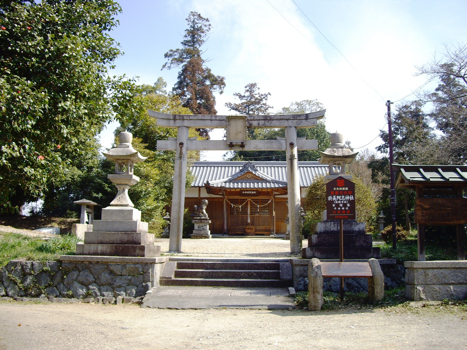 Omiashi Jinja Shrine, in Asuka, Nara Prefecture, Japan